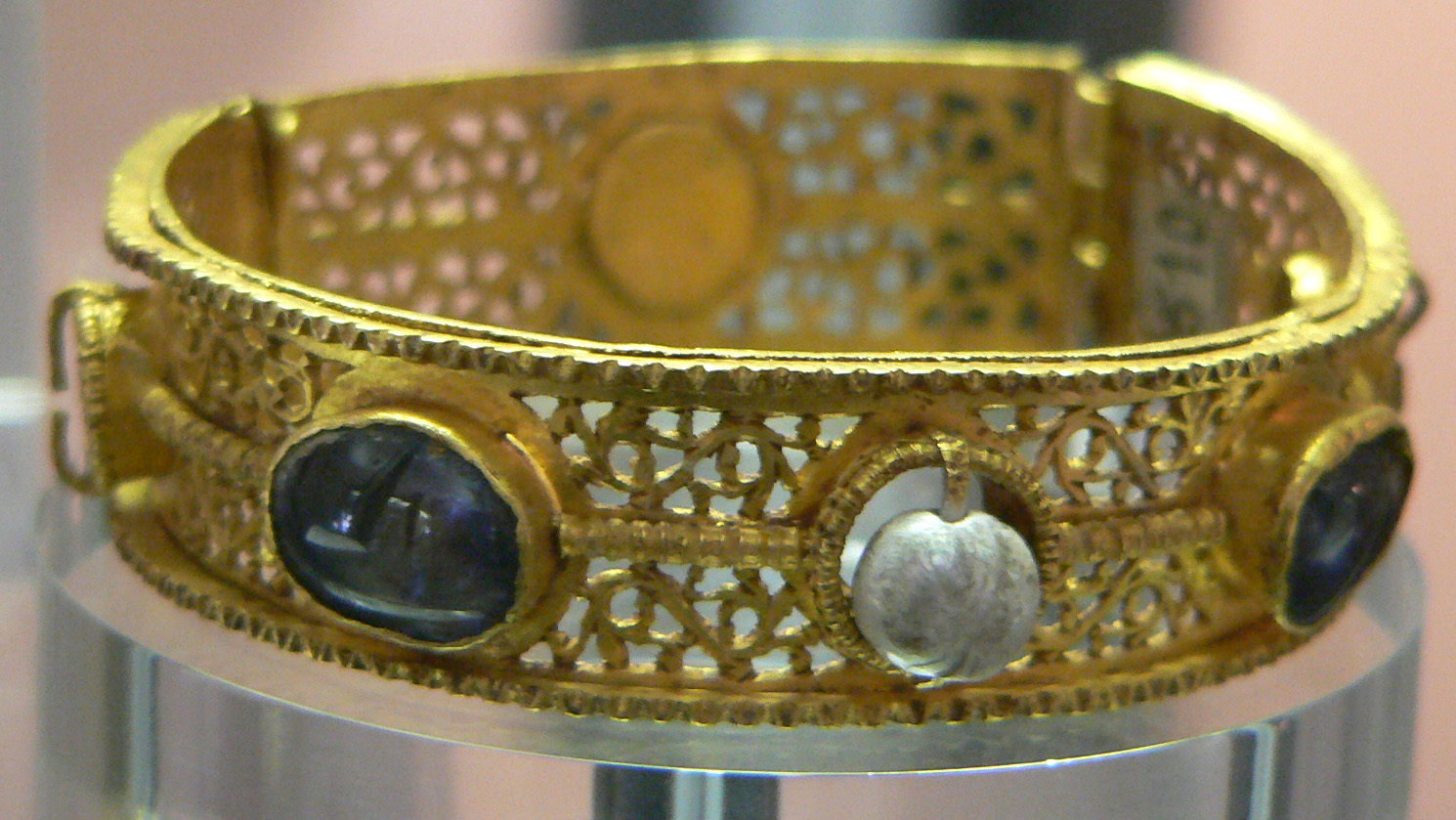 Bracelet for child (Gold with pearls and sapphires. Found in Syria. ca 400.